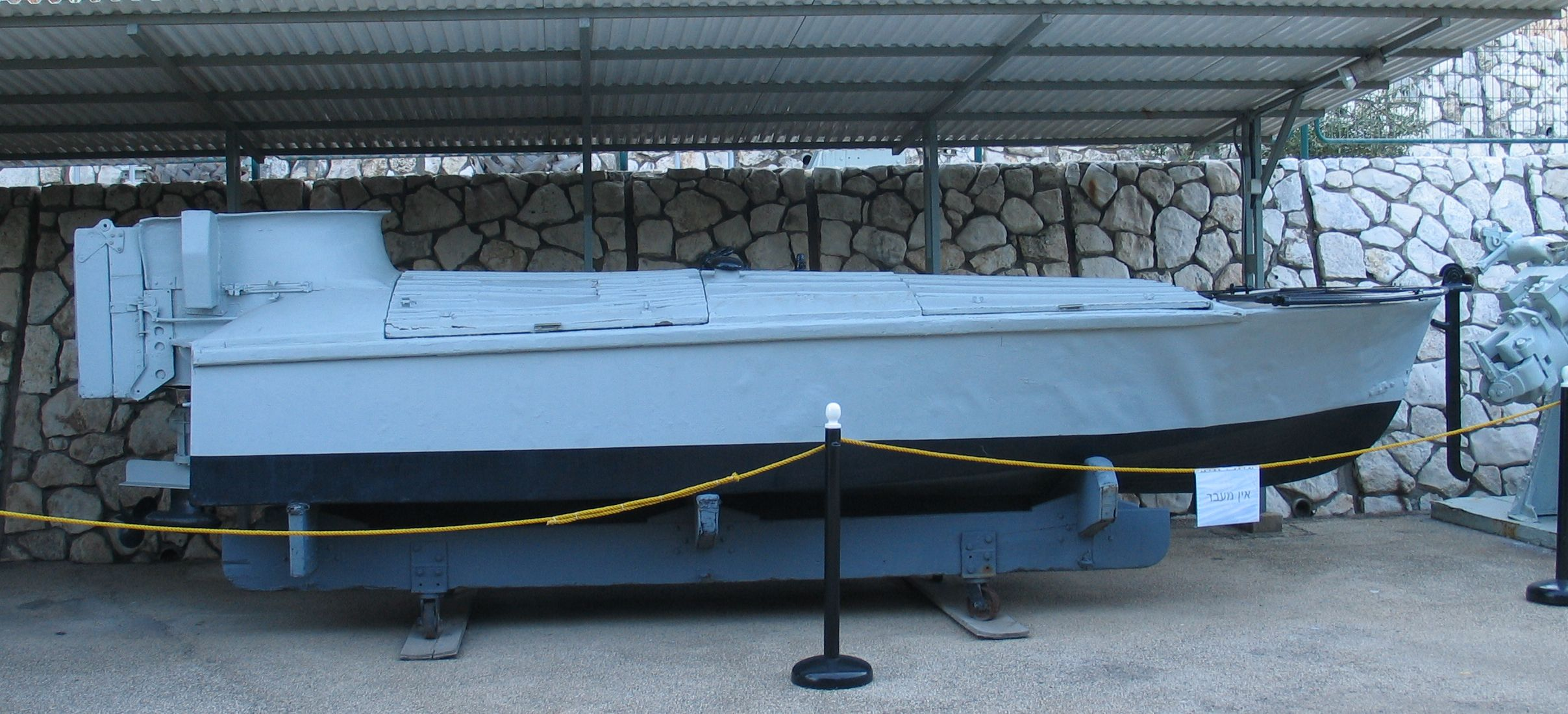 Explosive motor boat of the type used by the Israeli Navy in the Independence War, in the Clandestine Immigration and Naval Museum, Haifa, Israel. Possibly an Italian MTM (Motoscafo da Turismo Modificato).